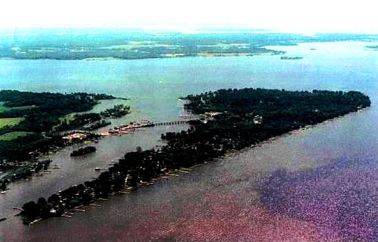 An aerial view of Cobb Island, Maryland.